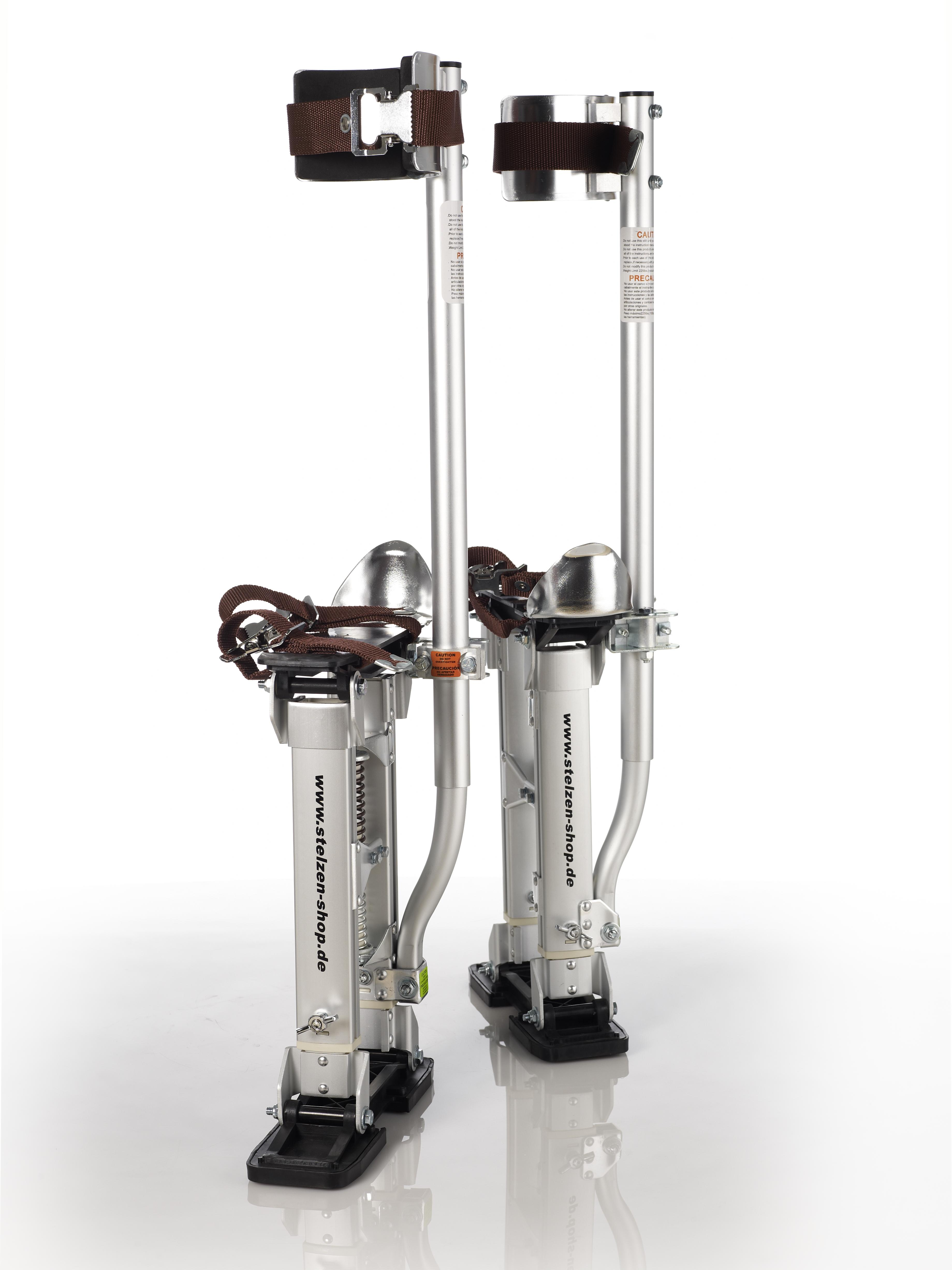 Picture of stilts for DIY and craftsmen.